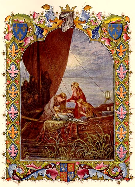 From Morte D'Arthur: A Poem by Alfred Lord Tennyson.